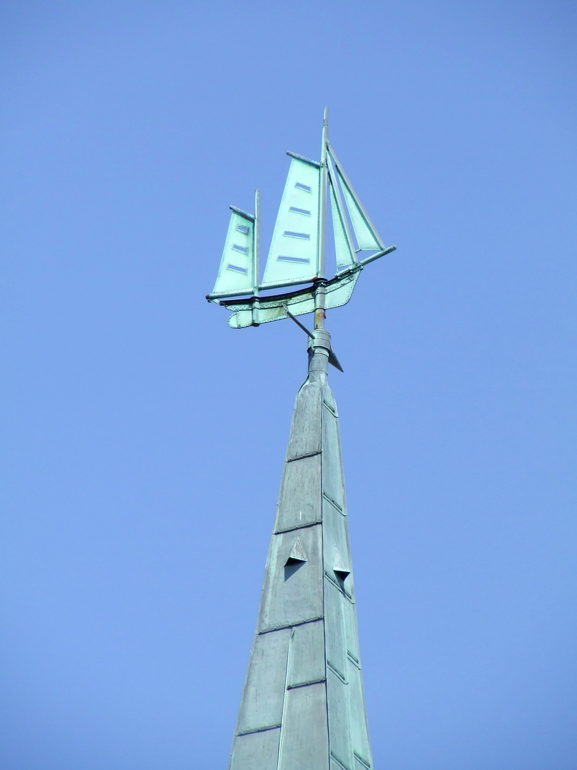 Spire of the steeple of church St. Nicolai on Heligoland